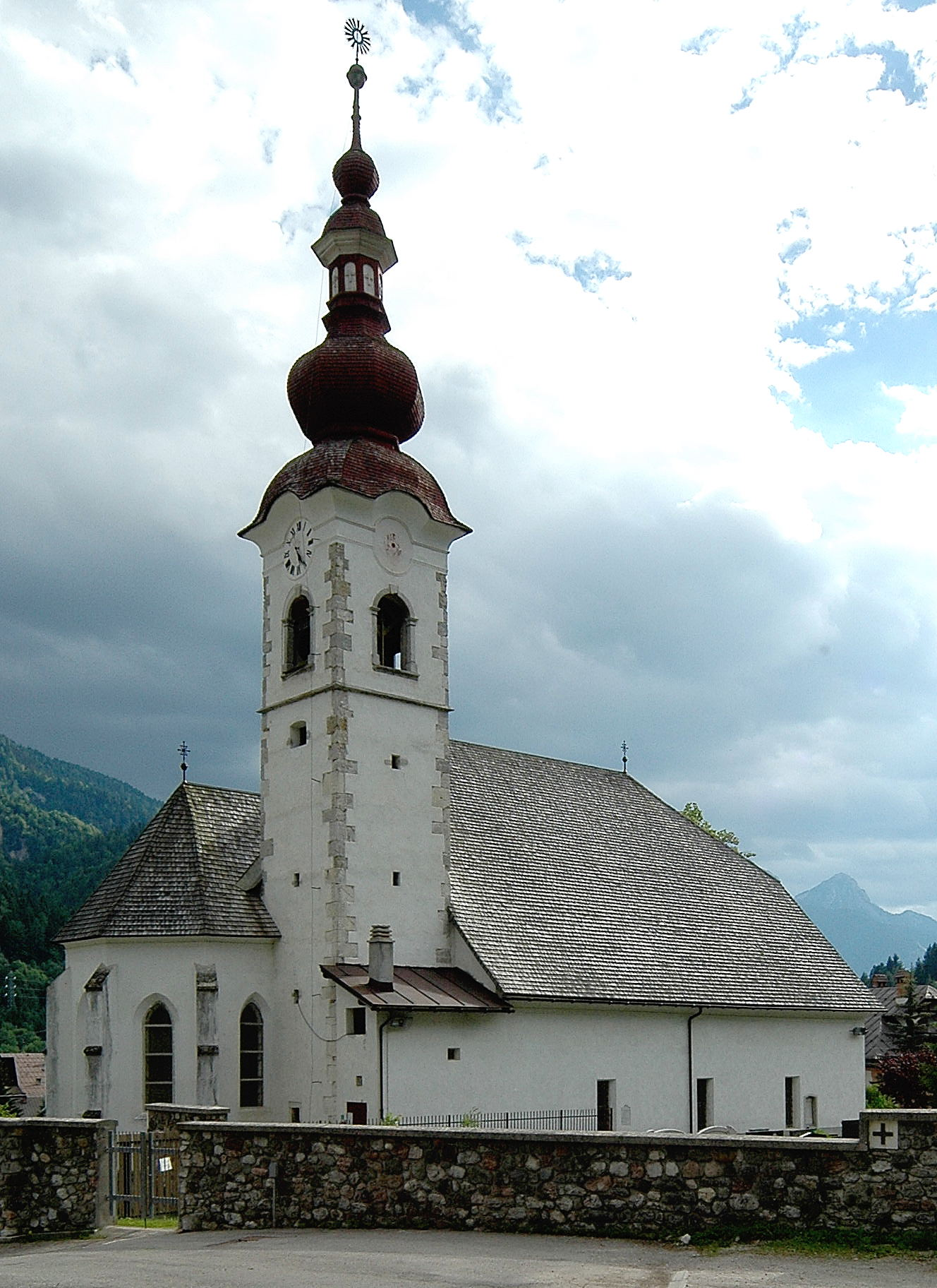 Baroque church of Camporosso/Saifnitz, Tarvisio, Italy